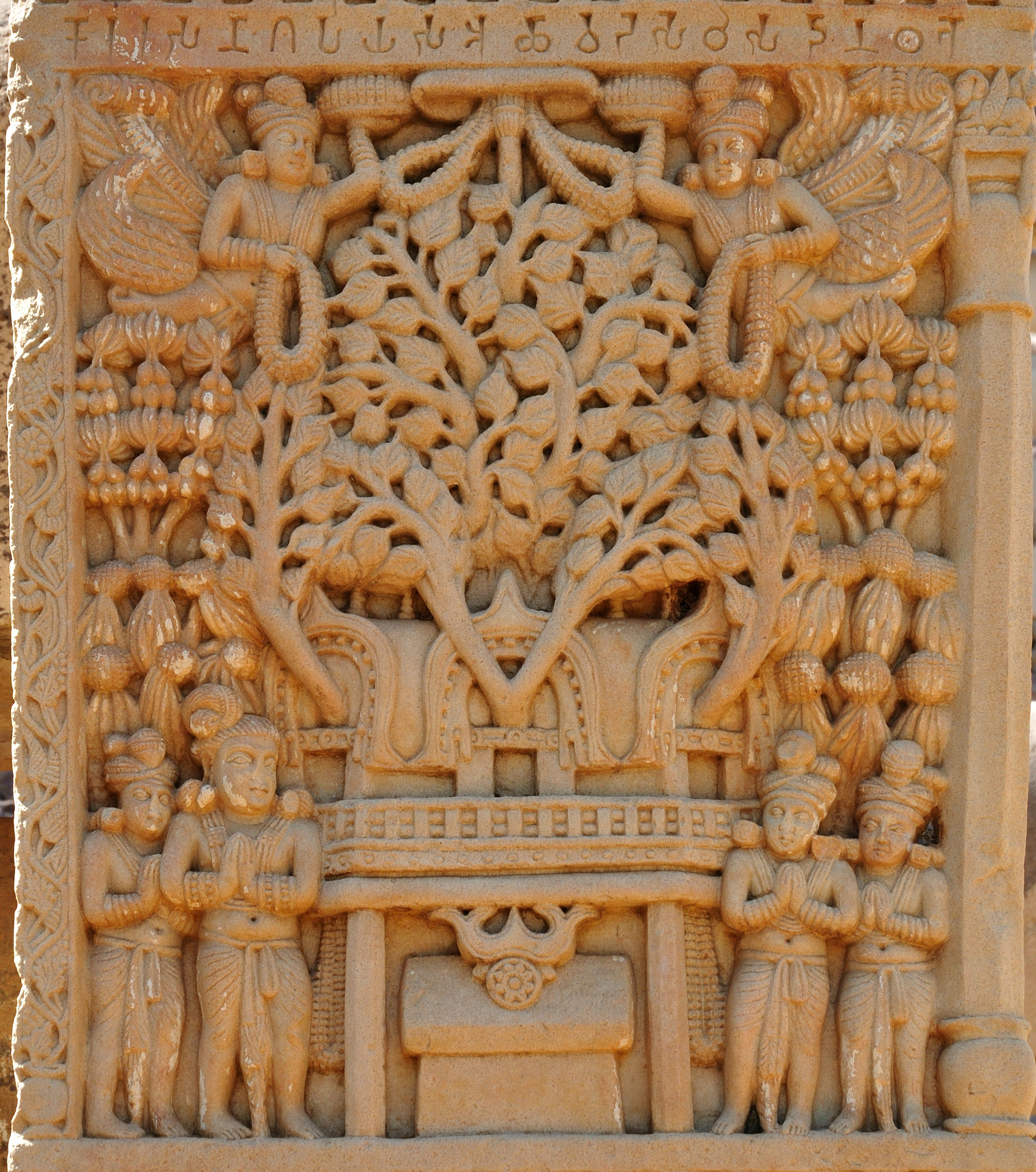 Pipal tree temple of Bodh Gaya depicted in Sanchi Stupa 1 Eastern Gateway